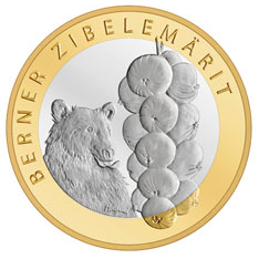 Swiss Commemorative Coin 2011 CHF 10 obverse